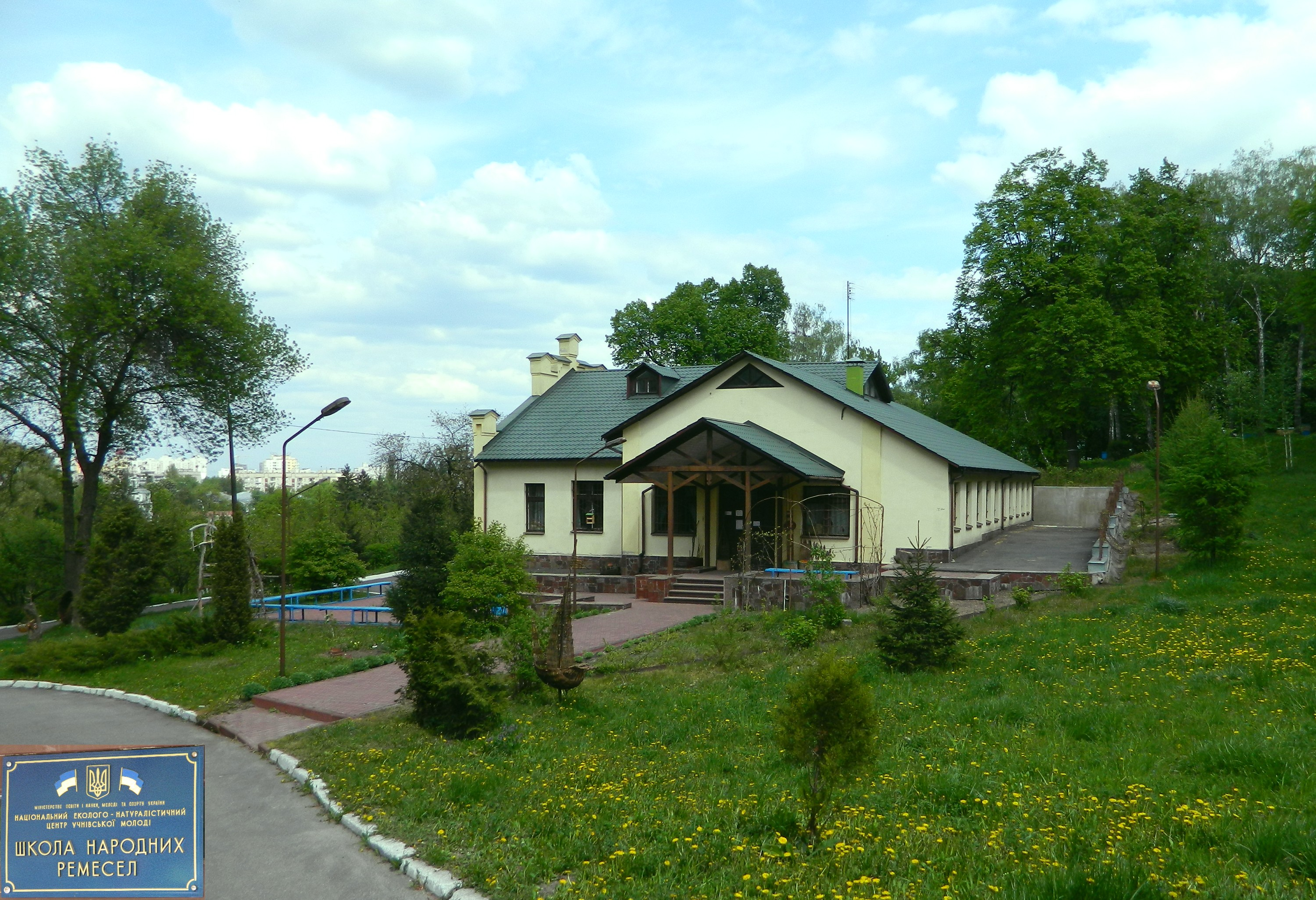 Ukraine. Kyiv. National ecological and naturalistic center of school student. School of Folk Crafts